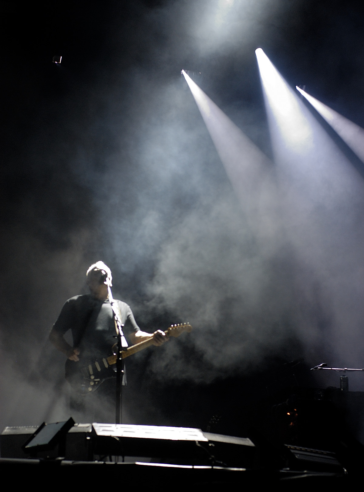 David Gilmour in concert in Munich, Germany : Gilmour... "Fat Old Sun"